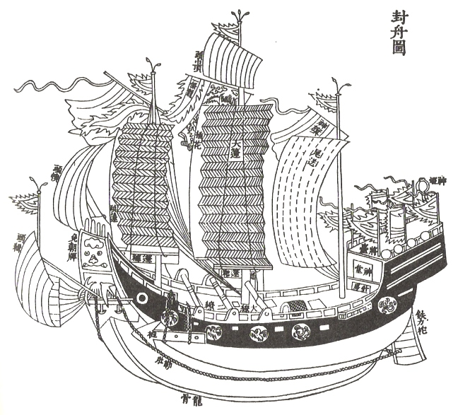 Print of a 14th century Yuan Dynasty Junk (ship).